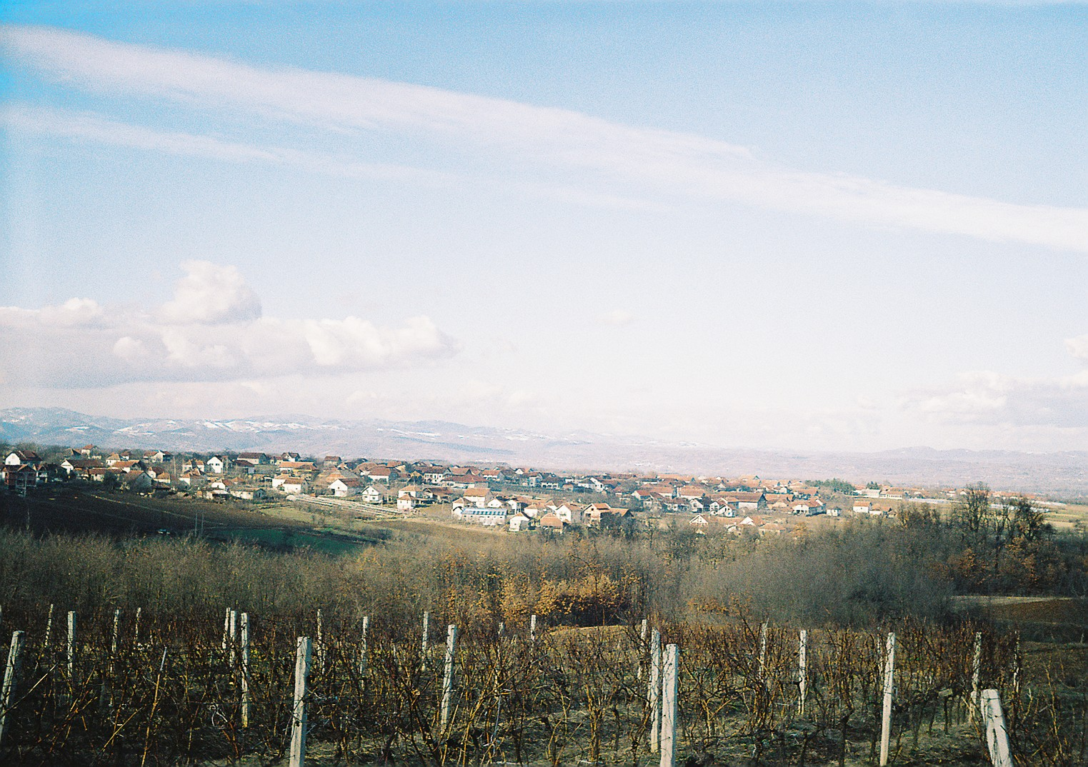 Panoramic vew of Gornja Omašnica, near Trstenik, Serbia